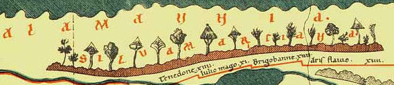 Part of Tabula Peutingeriana centered around present day Black Forest